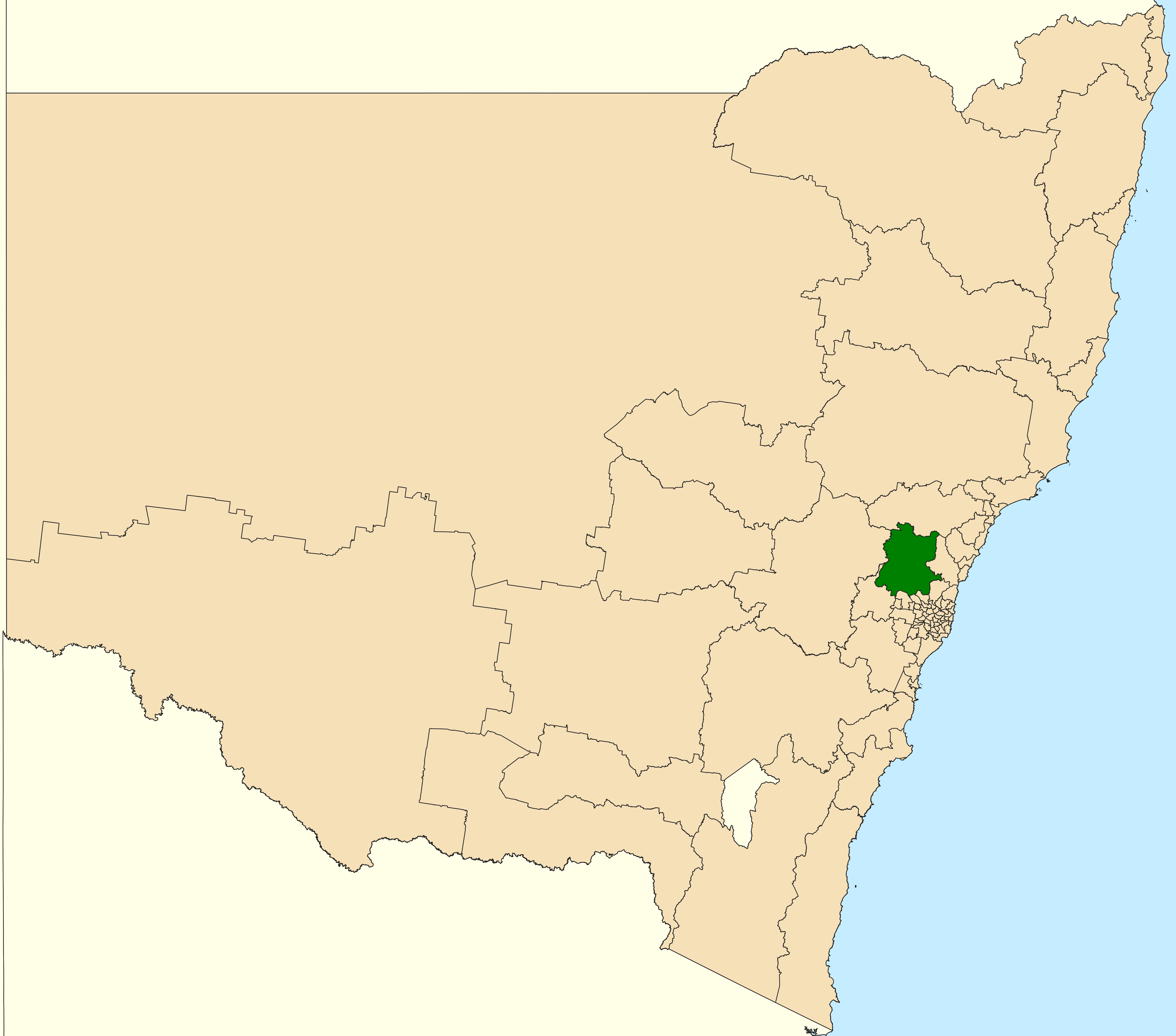 Location of the state electoral district of Hawkesbury (dark green) in New South Wales as of the 2019 New South Wales state election. Incorporates or developed using Administrative Boundaries ©PSMA Australia Limited licensed by the Commonwealth of Australia under Creative Commons Attribution 4.0 International licence (CC BY 4.0).